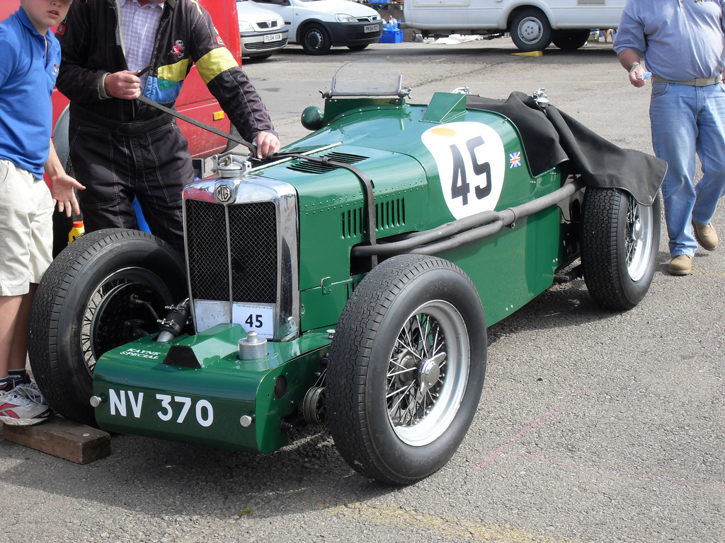 A smart little MG Q-Type racing car. This has an 1100cc supercharged engine.